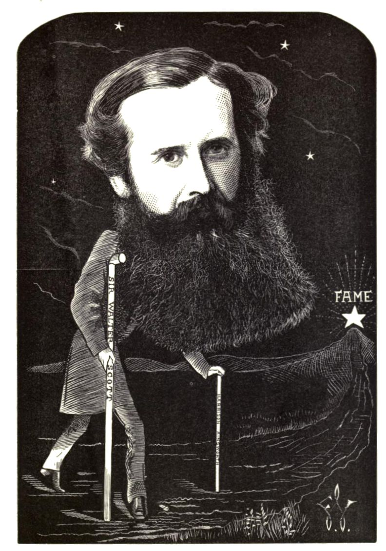 Andrew Halliday Duff. A successful dramatist from Cartoon portraits and biographical sketches of men of the day